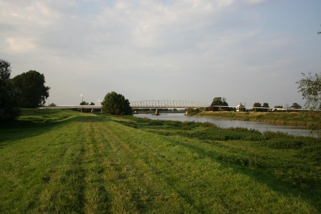 Dunham bridges from the Trent bank.